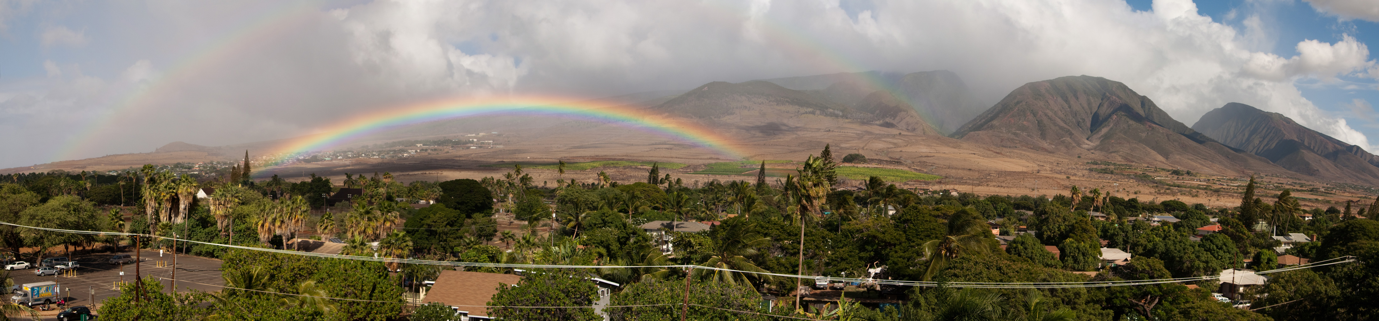 Shot from Lahaina Shores on Front Street